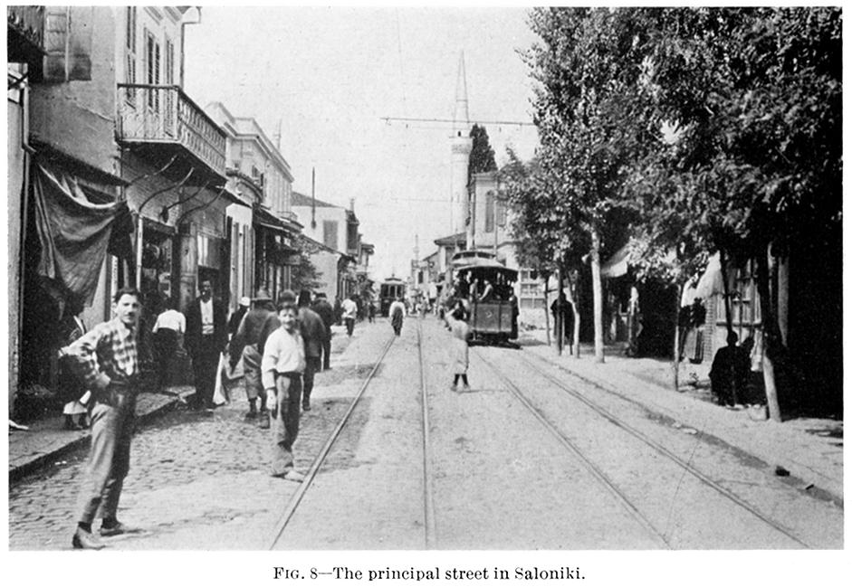 Street of Thessaloniki / Rue de Thessalonique (1916)